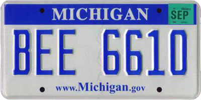 Michigan license plate from 2008